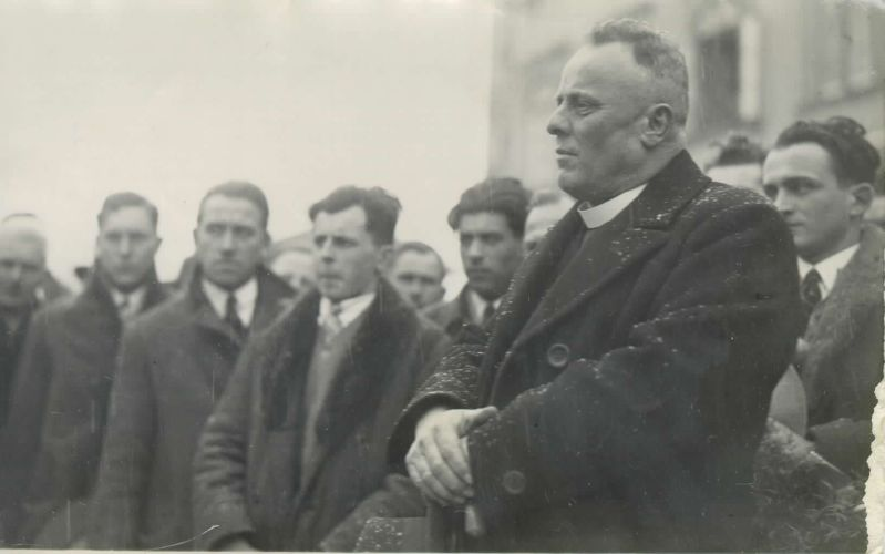 Vinko Poljanec (1876-1938)